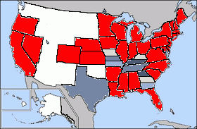 1872 elections usa results by state